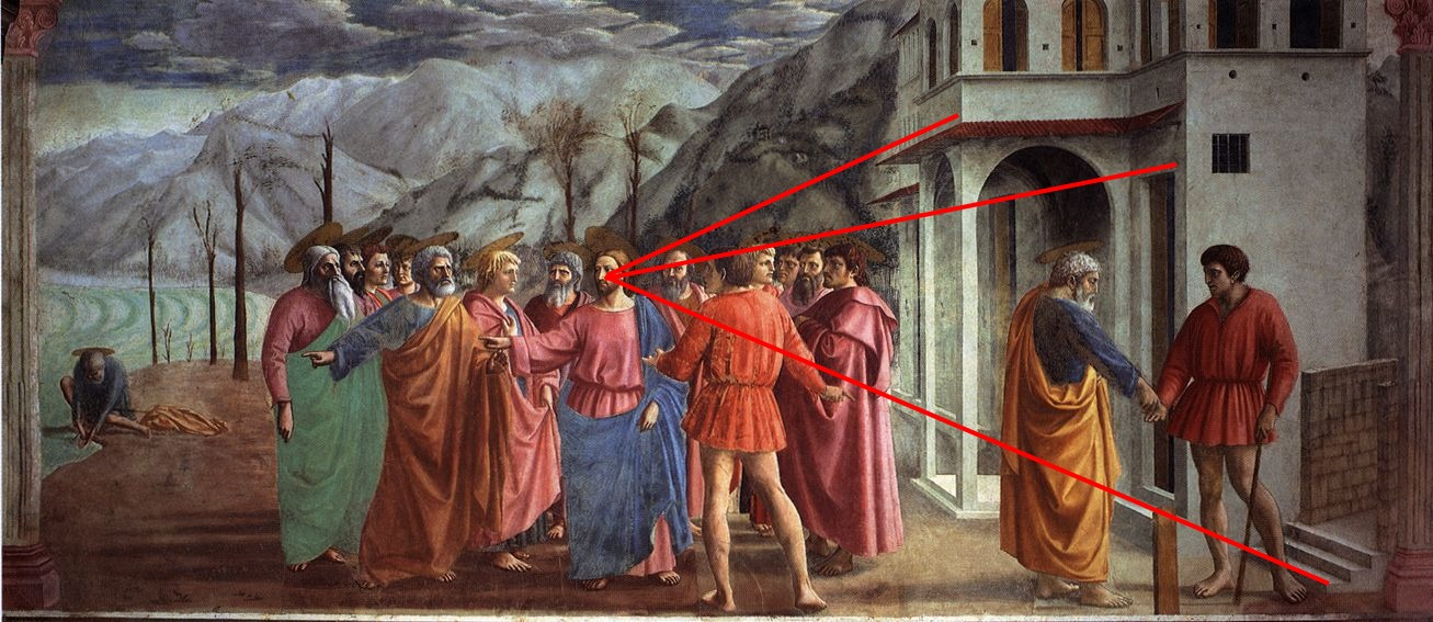 Masaccio's The Tribute Money with lines showing perspective.